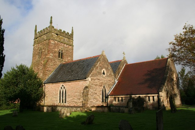 St.Swithin's church, Wellow St.Swithin's has a 14th century nave, wide south aisle and a tower with Norman lower masonry, curiously placed at the SW corner. All much restored by Ewan Christian in 1878-9.